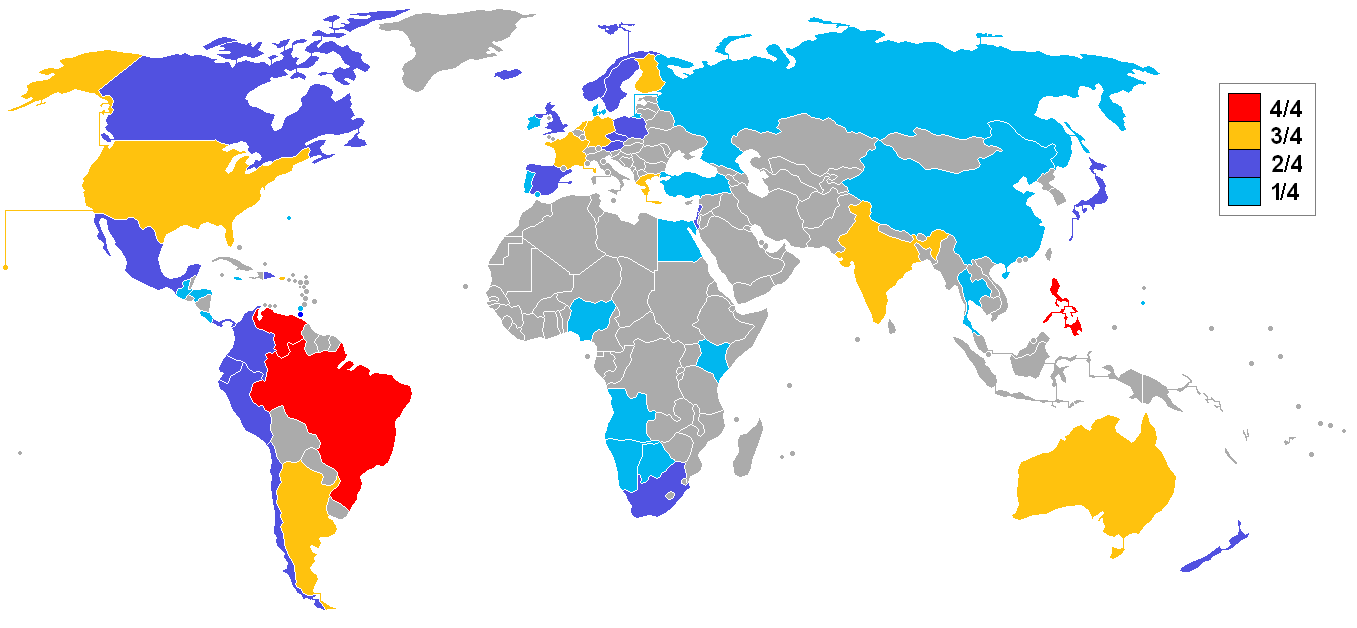 image created by Jone80